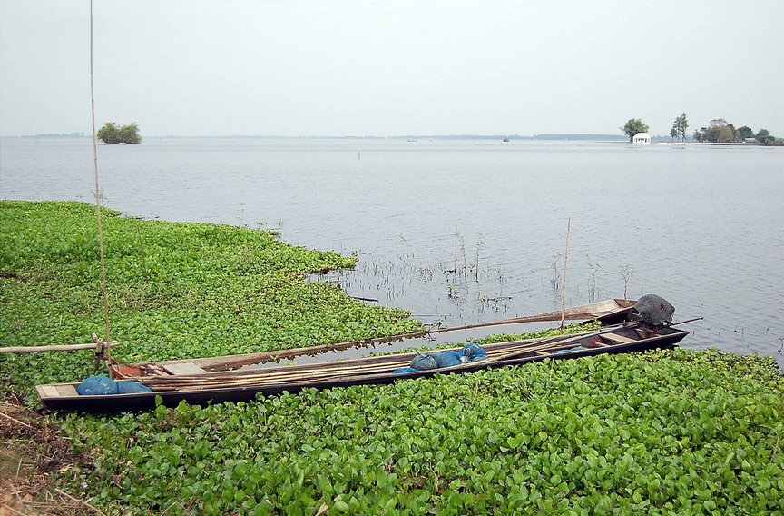 Photo by : Mr.Tawee Chartpangta. A reservoir in amphoe Nong Wua So, Udon Thani province.